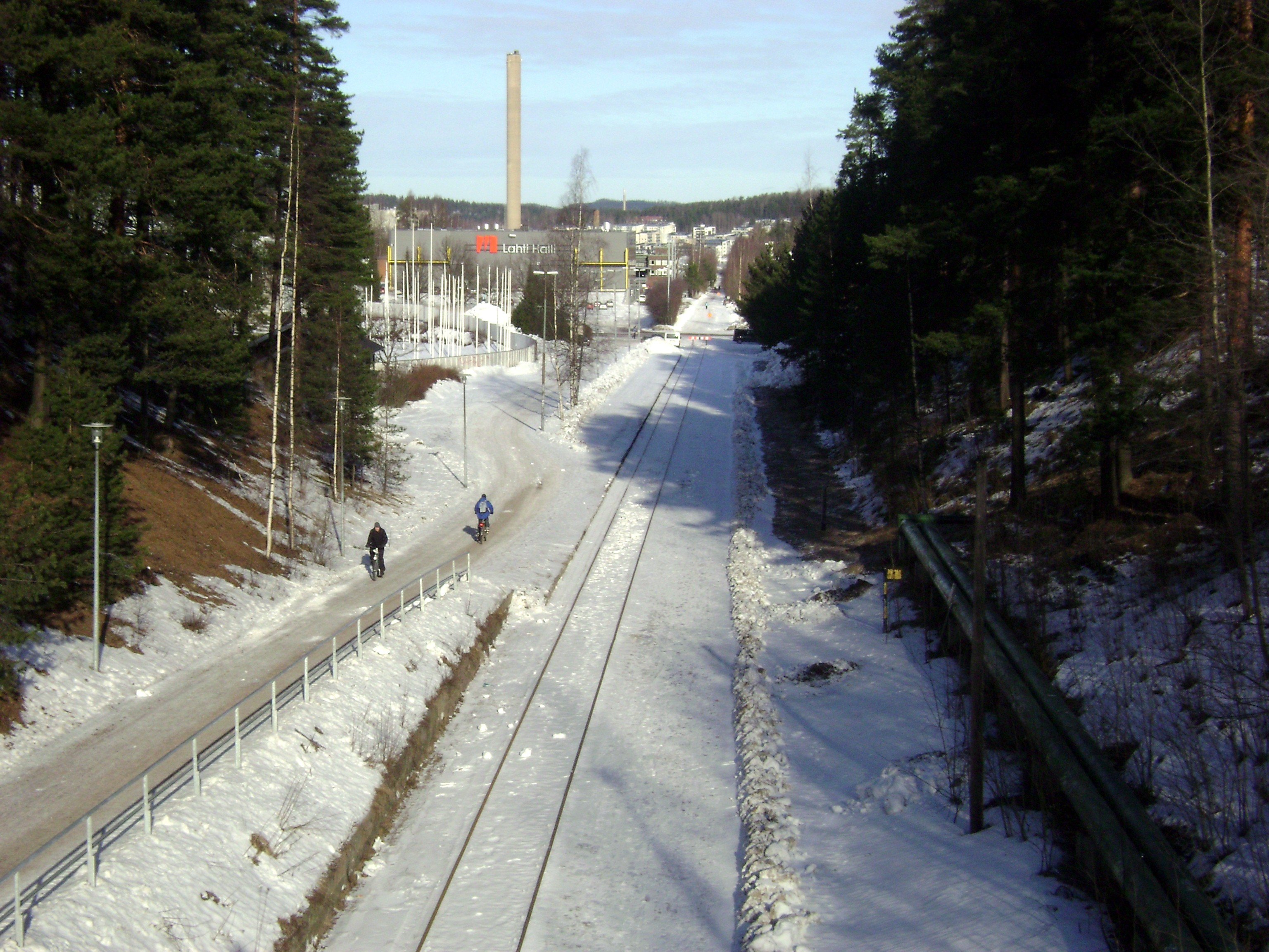 Salpausselkä halt near Lahti skiing stadium.